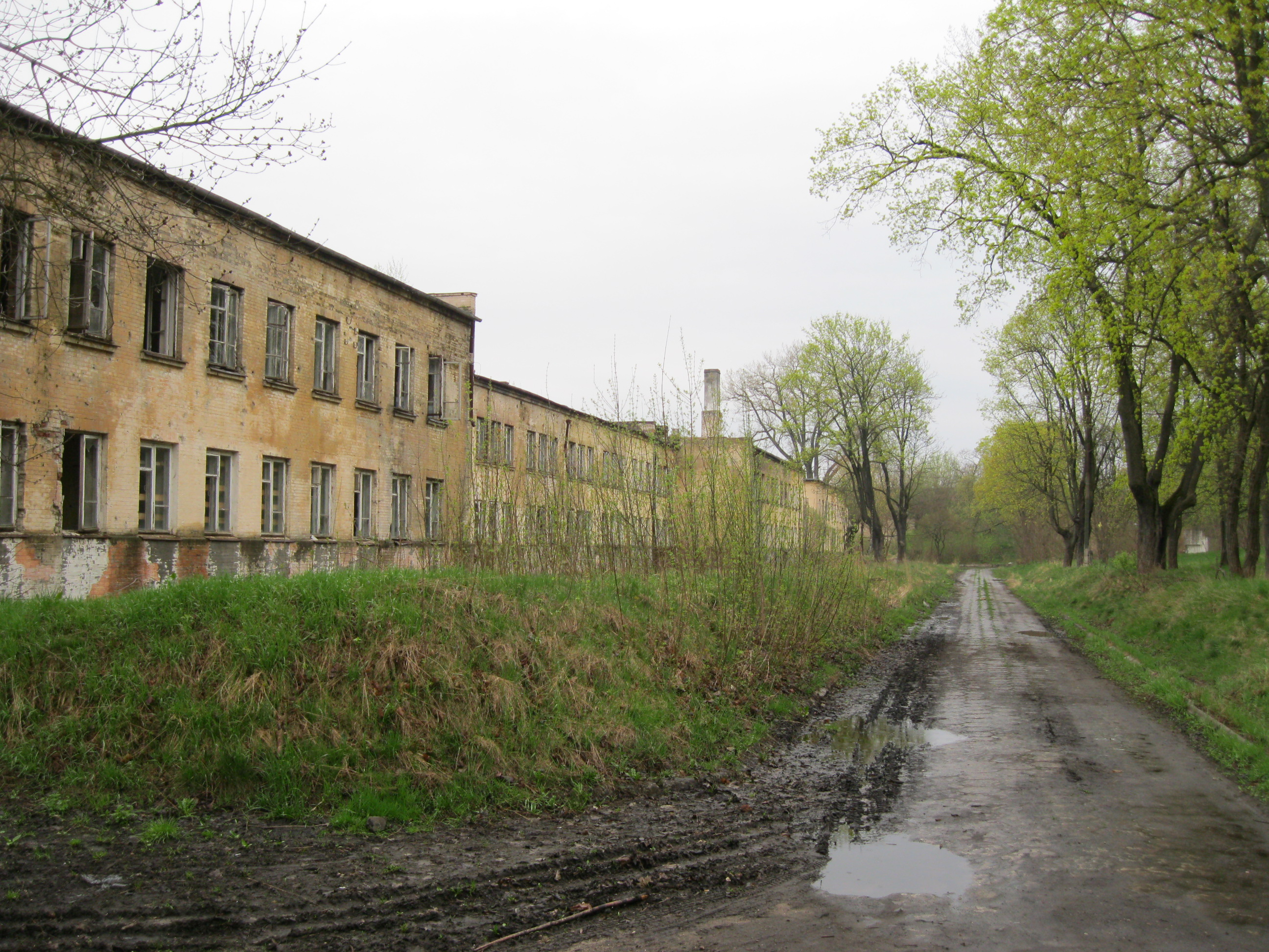 Deserted military barracks @ Brest fortress compund